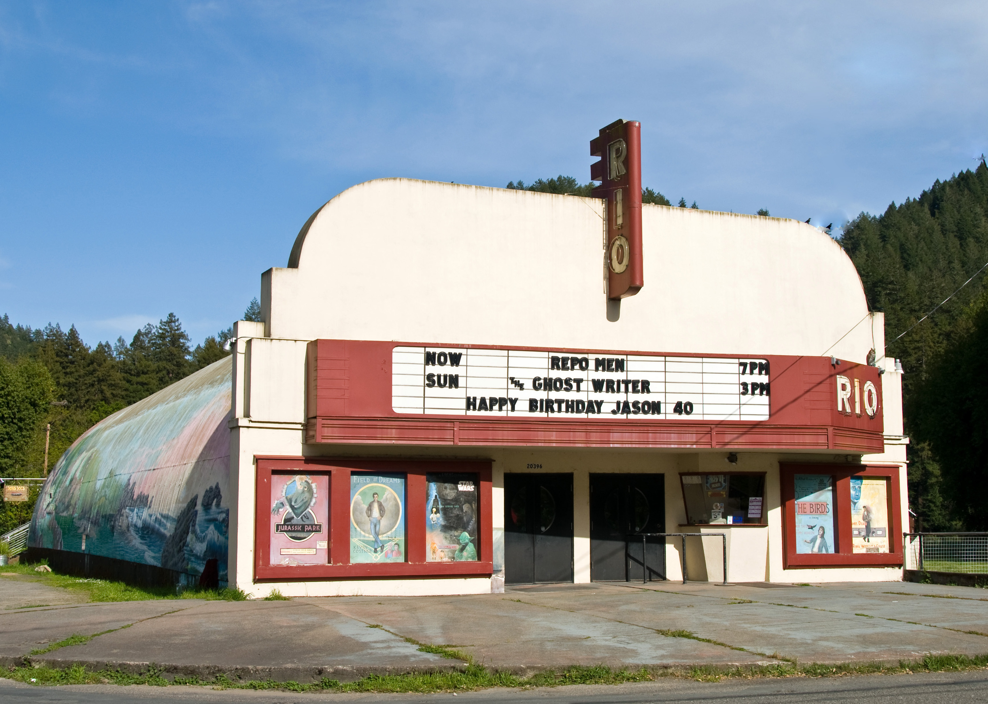 Anyone who has passed through Monte Rio along the Russian River cannot help but notice the Rio Theater - a quirky movie theater housed in a Quonset hut. A mural depicting the area adorns the outside while inside top rated motion pictures are screened for short runs usually two or more weeks after their initial release. History: Local merchant, Sid Bartlett, started building the theater in 1949, and completed it in 1950. It was built from a surplus World War II Quonset hut but it was never actually used in the war. Inside today, the ceiling is lined with remnants of Christo and Jeanne-Claude's Running Fence art project (c. 1972-1976) that stretched white nylon fabric over 24 miles from Hwy 101 to the Sonoma coast. Also inside, local art depicting the area's rich history adorn the walls. Showtime: When a show is playing, the concession stand up front serves wonderful "theater faire" including hot dogs with sauerkraut. But when a movie isn't playing, "Don's Dogs Cafe" is open at the back side of the building for breakfast and lunch 5 days of the week with a larger menu selection. Time Period Represented: 1950's through today. Hours Open: Wed-Sat: 9am to 9pm, Sun: 9am to 7pm, Closed: Mon-Tue Visitor Fees: Shows starting at $5/person Seasons Open: Year round